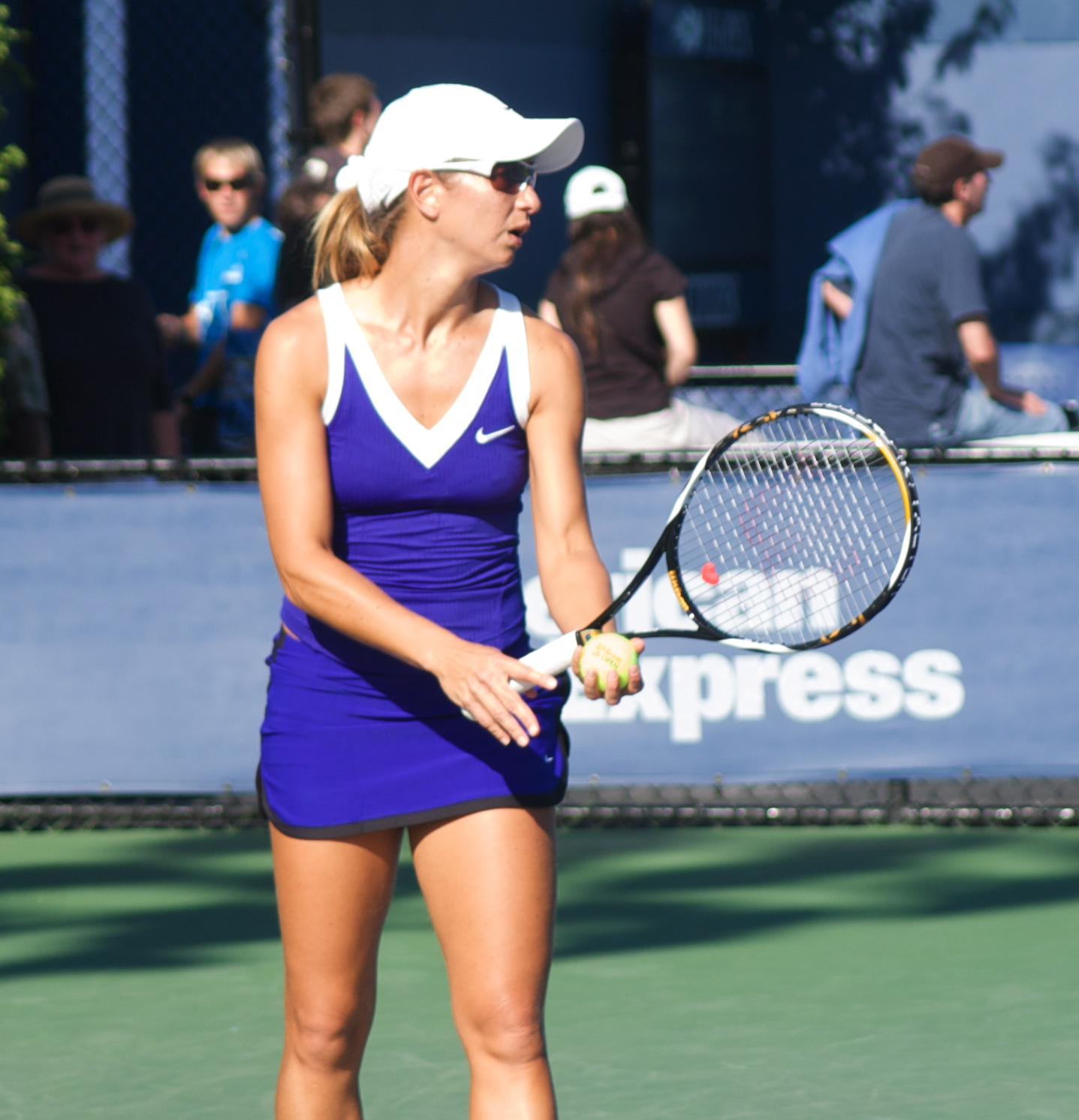 Rossana de los Ríos at the 2008 U.S. Open - Women's Singles